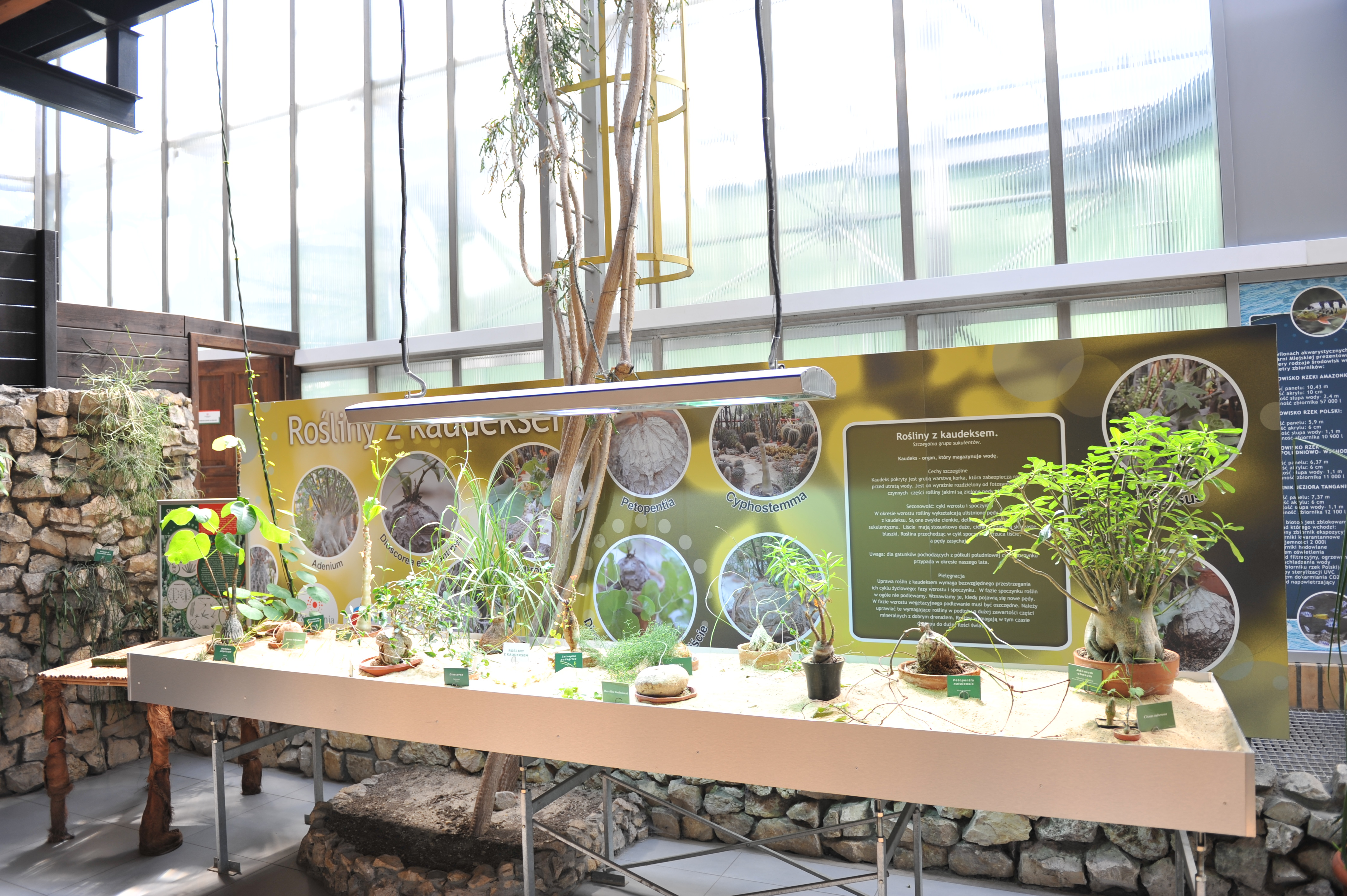 The Municipal Palm House in Gliwice - succulents with kaudeks, a water storage body.